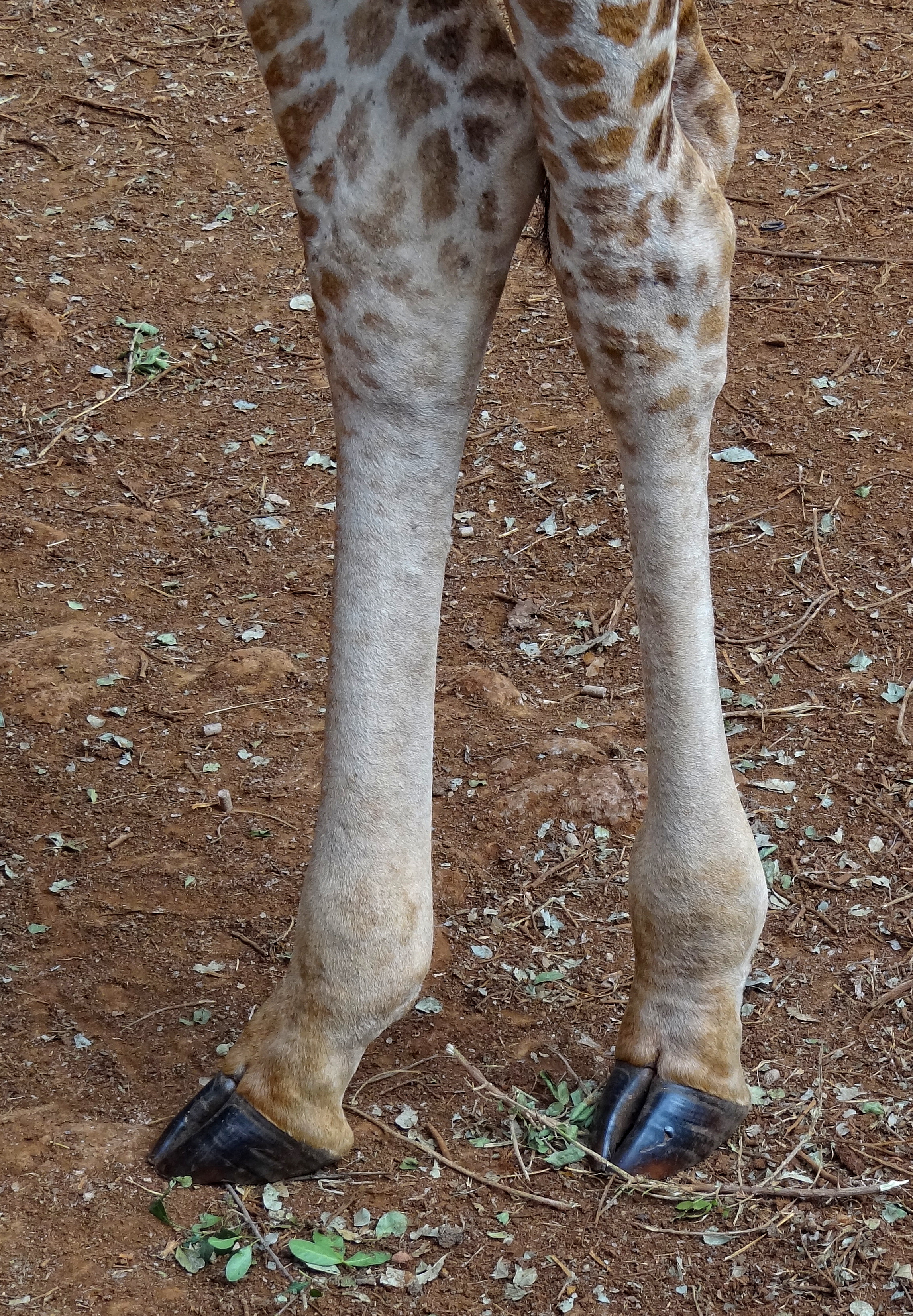 Close-up photo of the hind legs of a Rothschild giraffe in Nairobi, Kenya.